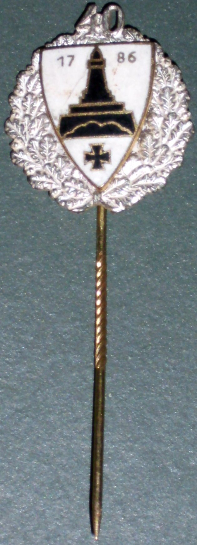 Loyalty pin of German Kyffhäuserbund (post 1945) for 40 years of membership.